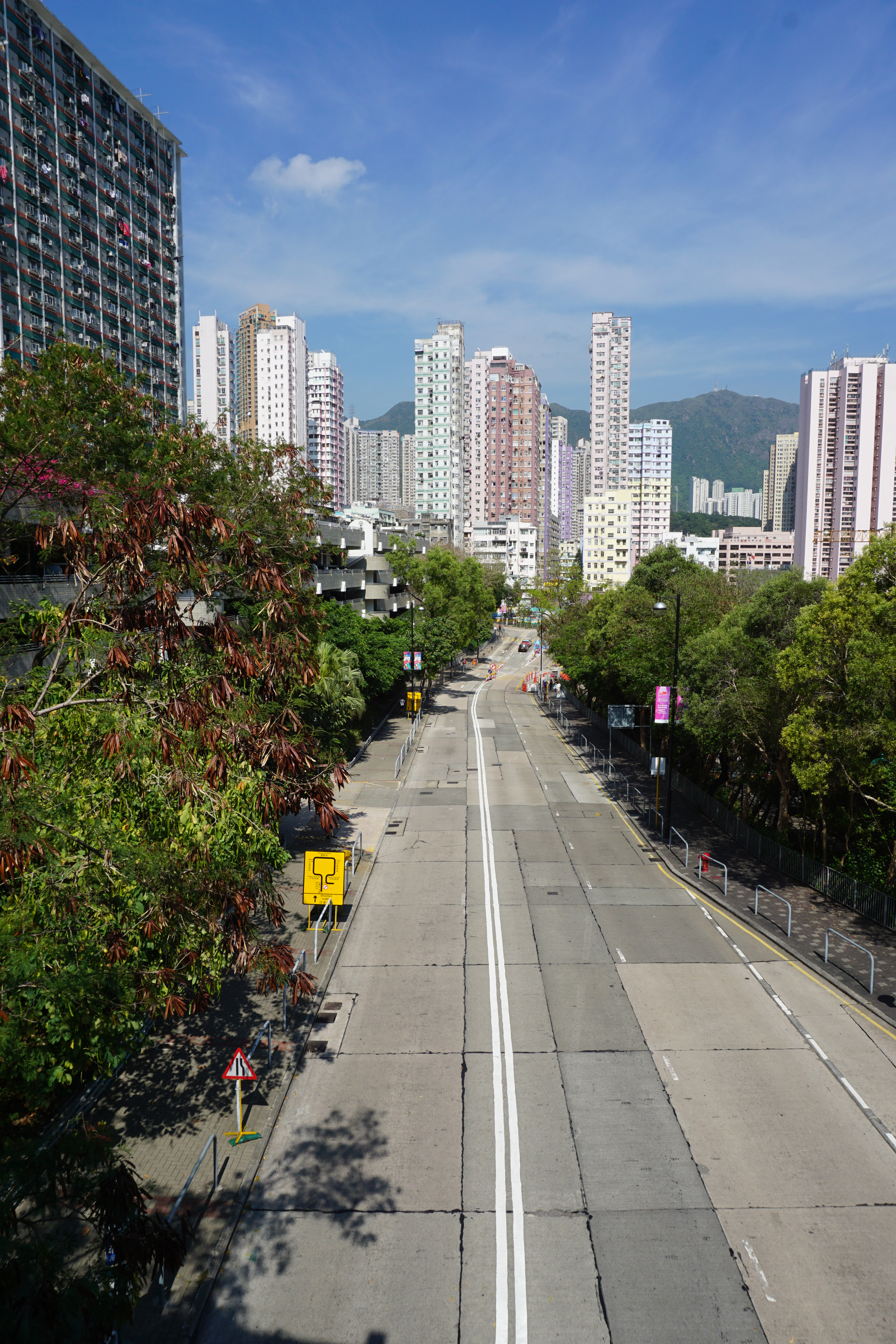 Wong Tai Sin Road in Wong tai Sin, Hong Kong.